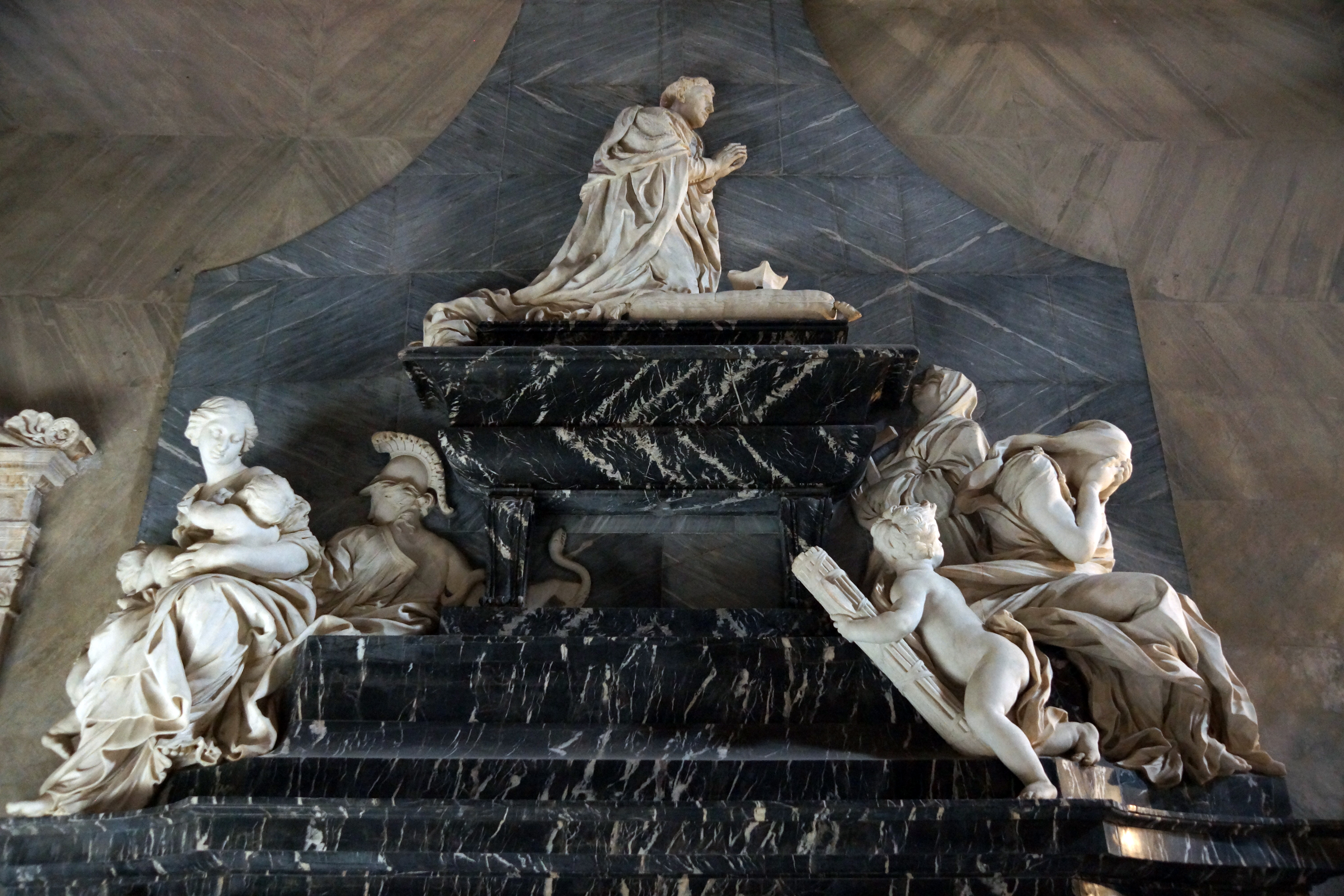 Tomb of Cardinal Domenico Pimentel by Gian Lorenzo Bernini